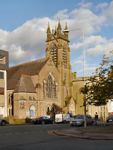 United Reformed Church, Park Green, Macclesfield, Cheshire, seen from the west